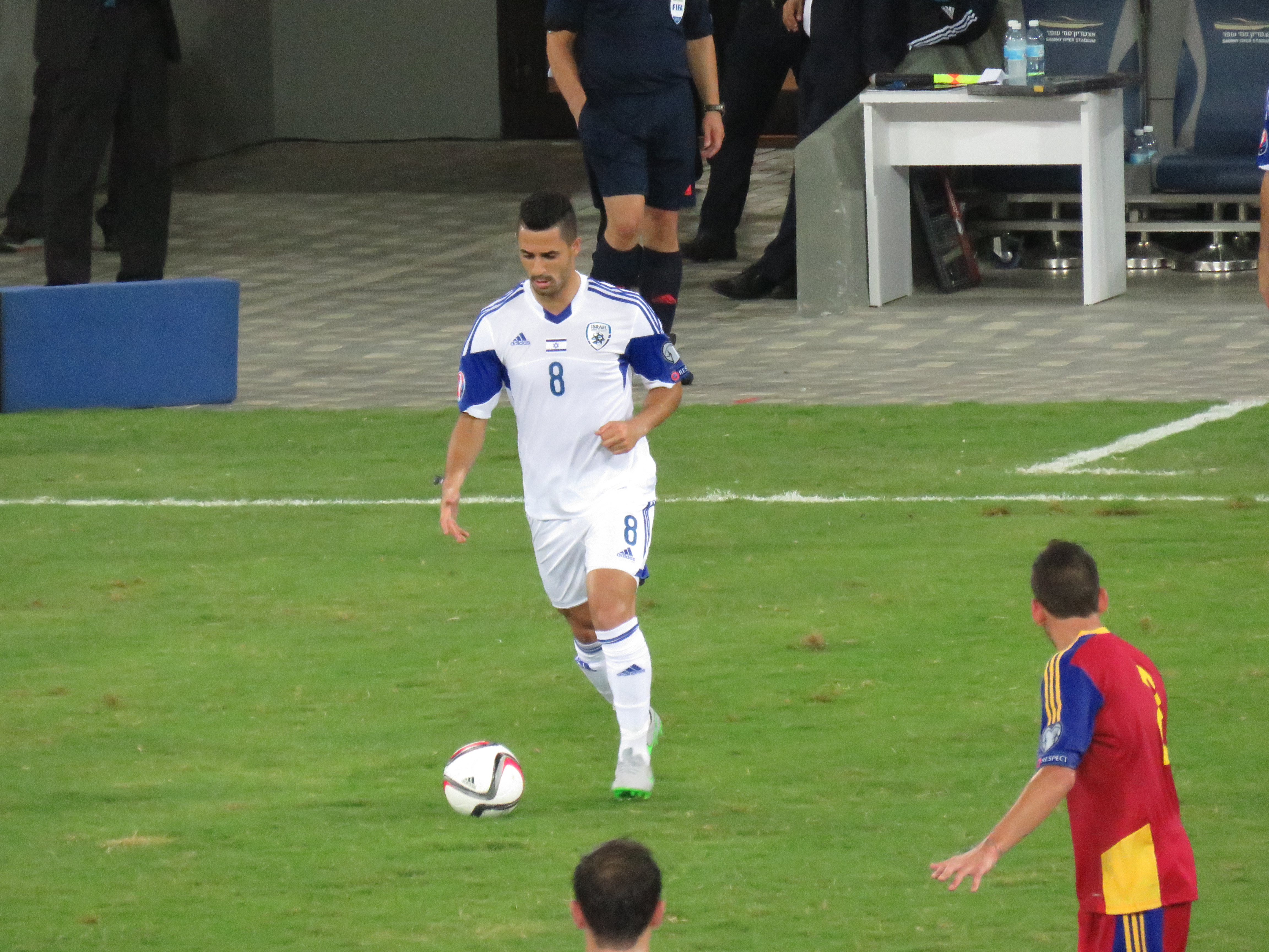 Israel vs. Andorra - September 3, 2015